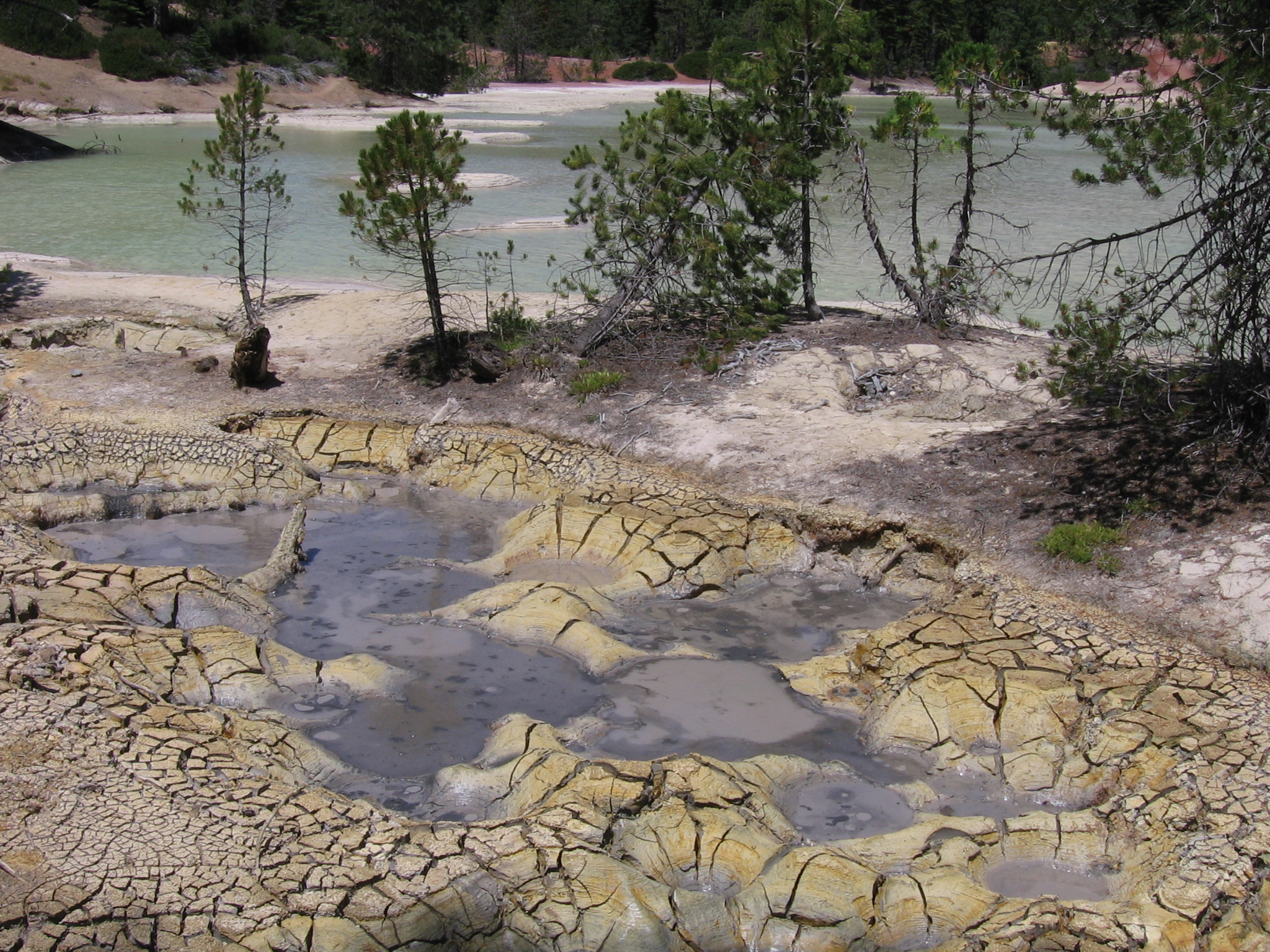 Boiling Springs Lake in Lassen National Park. I took this photo on July 31, 2005.